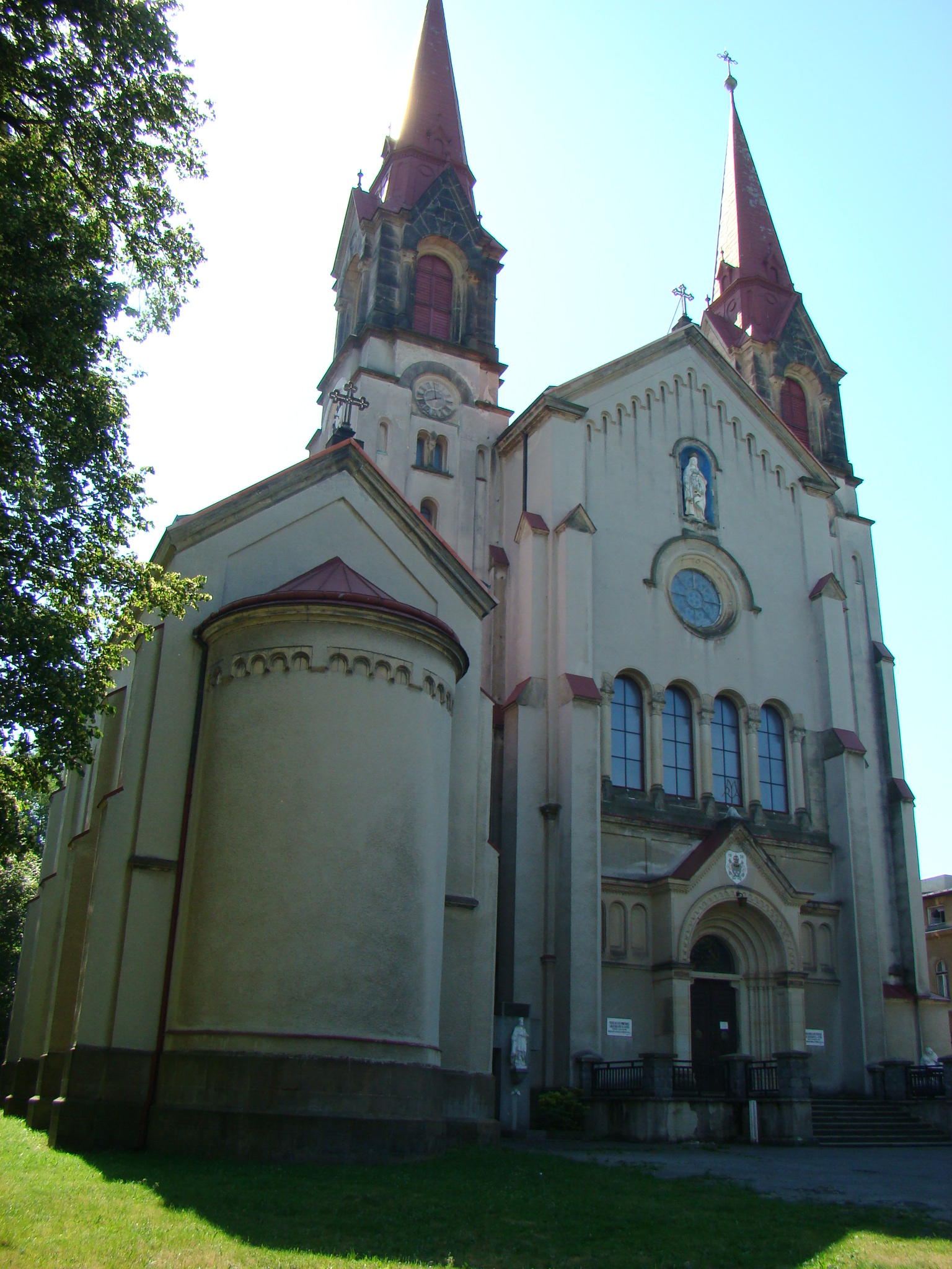 A church of Virgin Mary Česky: Bazilika minor Panny Marie Pomocnice křesťanů ve Filipově, 2010